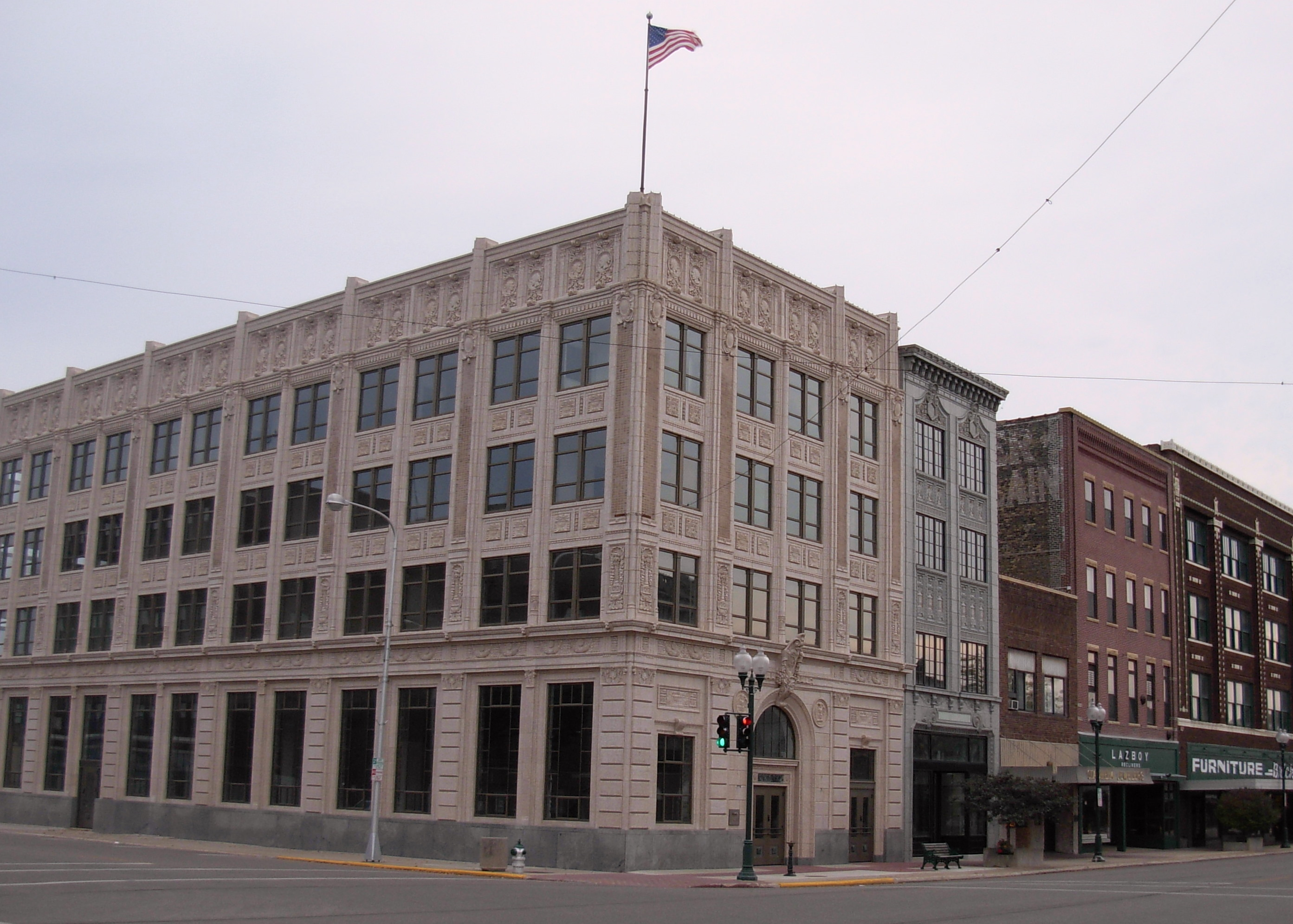 Historic downtown commercial district in Albert Lea, Minnesota, United States